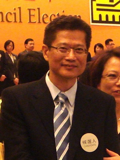 Hong Kong Institute of Certified Public Accountants Chairman Paul Chan Mo Po